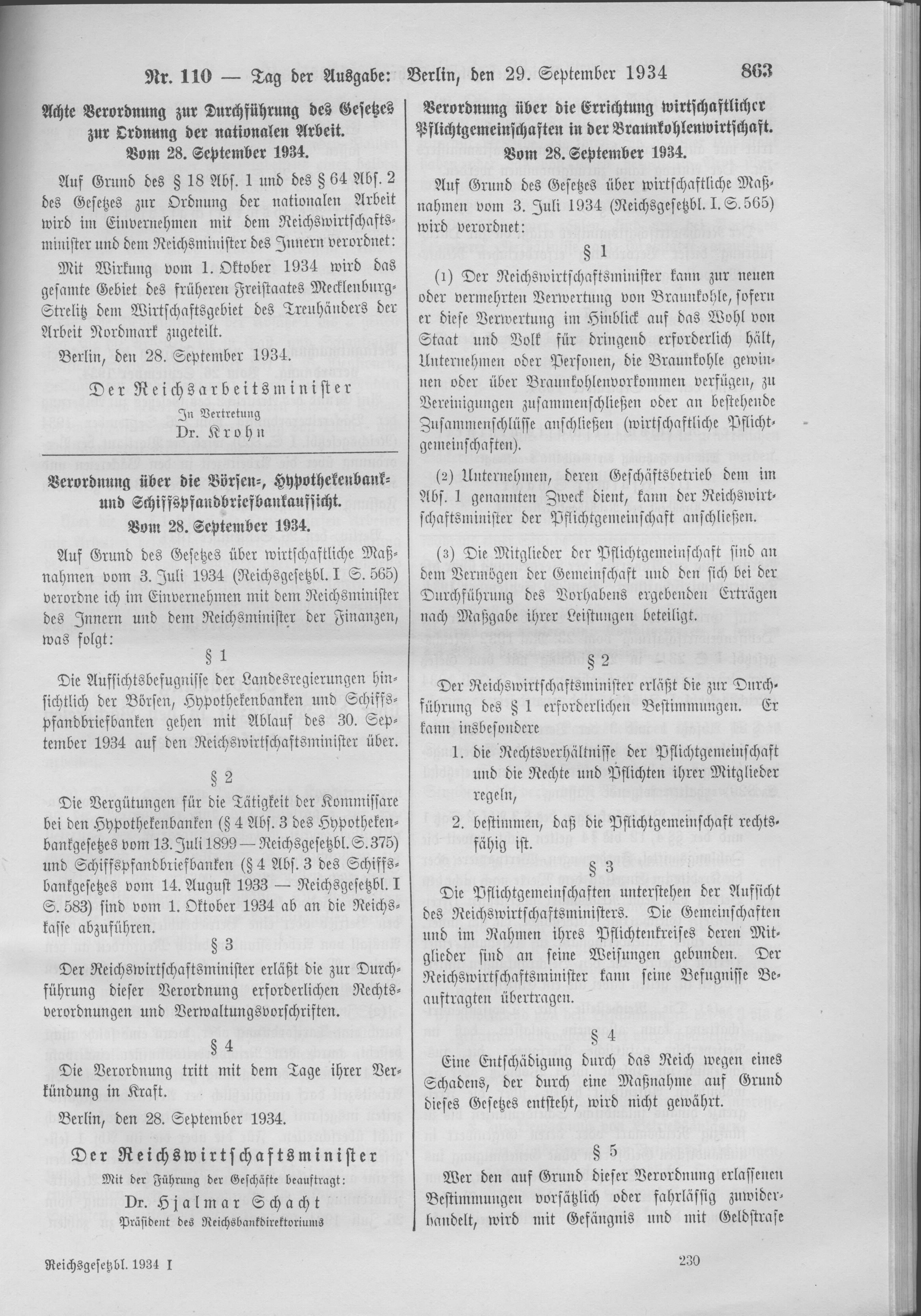 Scan from the Imperial Law Gazette of Germany, 1934, part 1